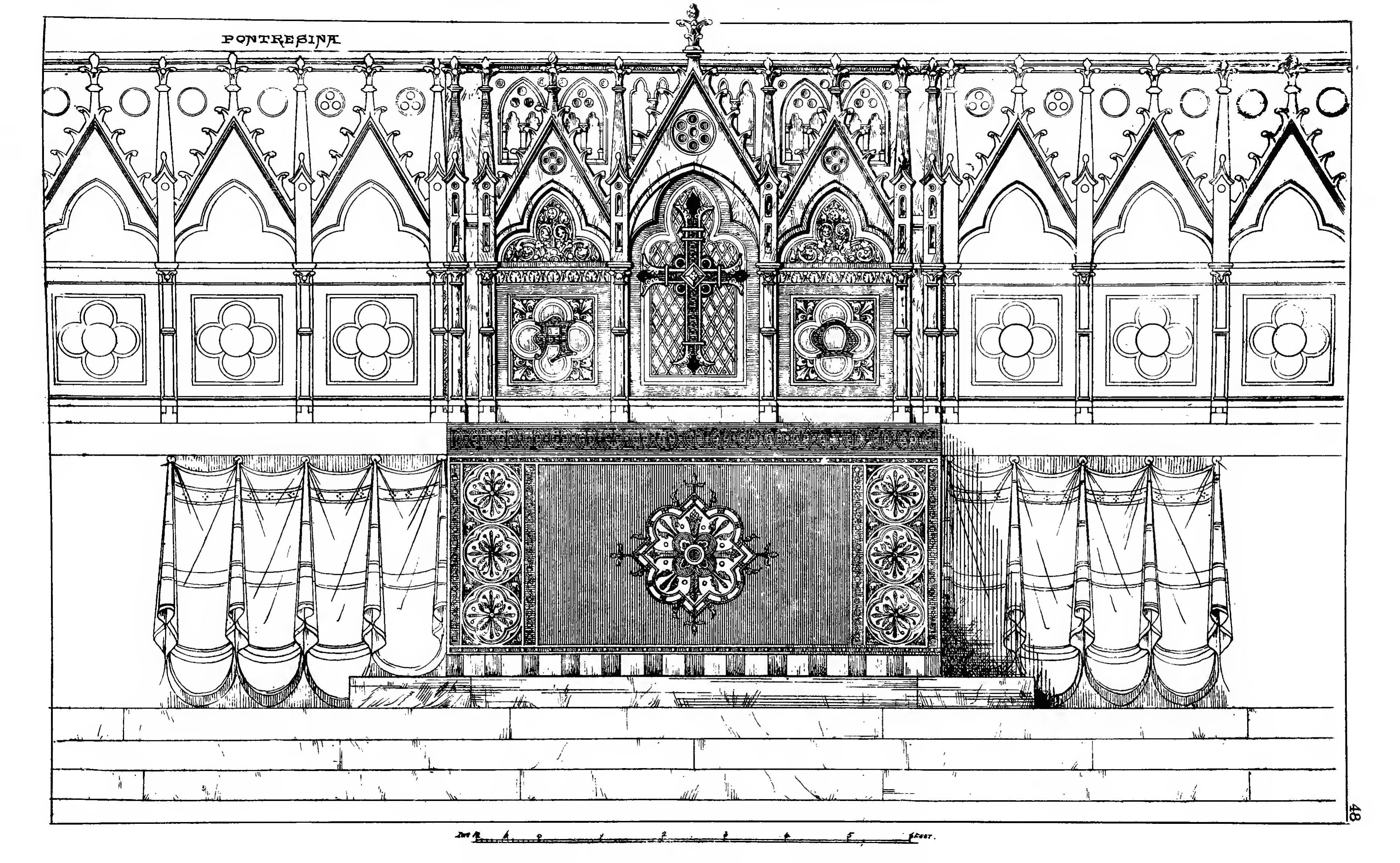 Pontresina, Holy Trinity Church - altar frontal